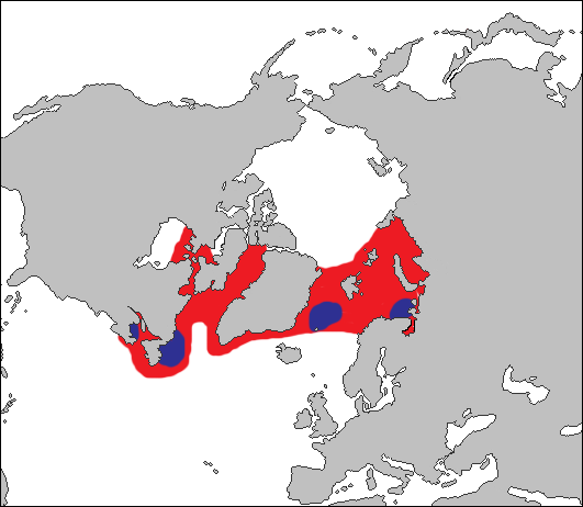 Distibution of Phoca groenlandica (Syn. Pagophilus groenlandicus), the blue colour indicates breeding grounds and the red habitat during the rest of the year